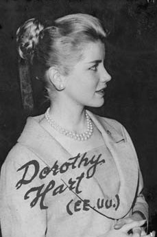 Dorothy Hart- actriz estadounidense